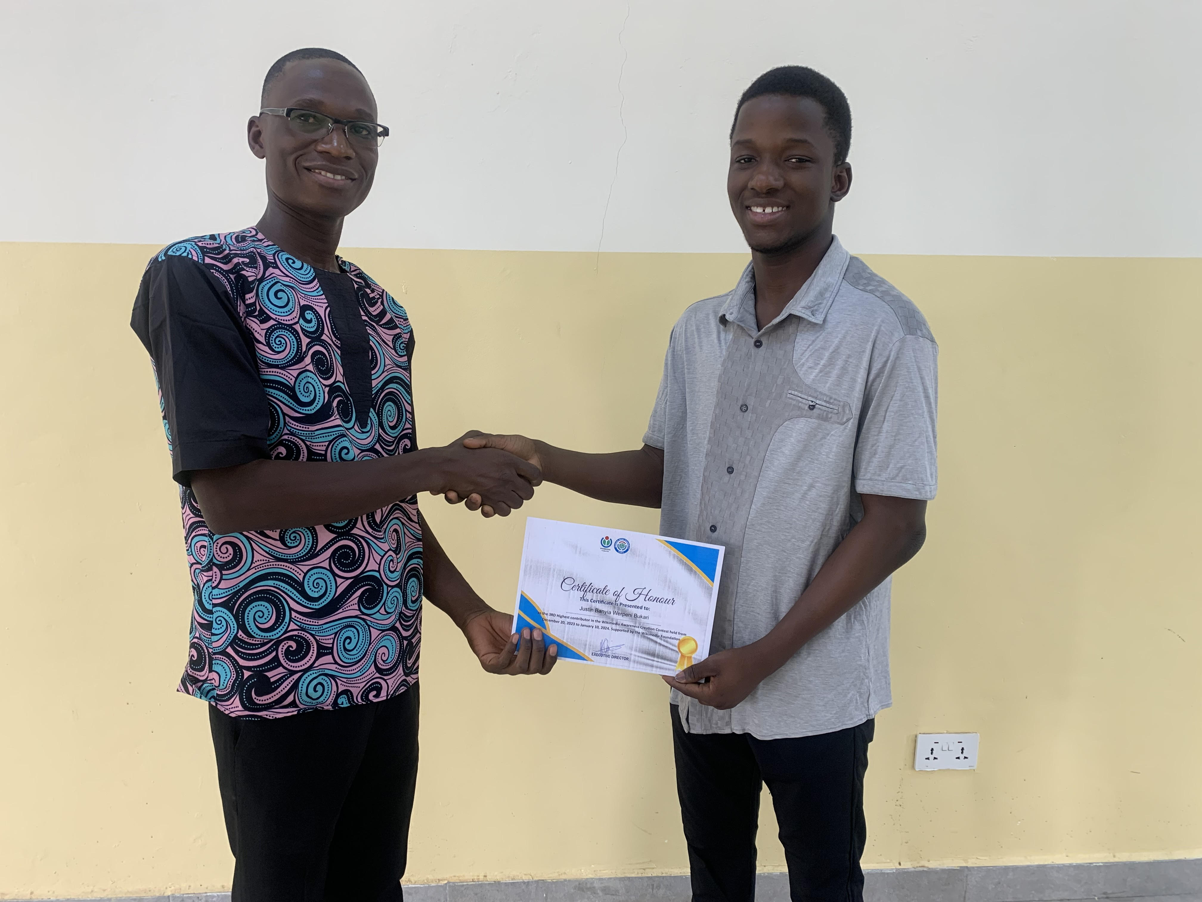 Receiving Box office Award